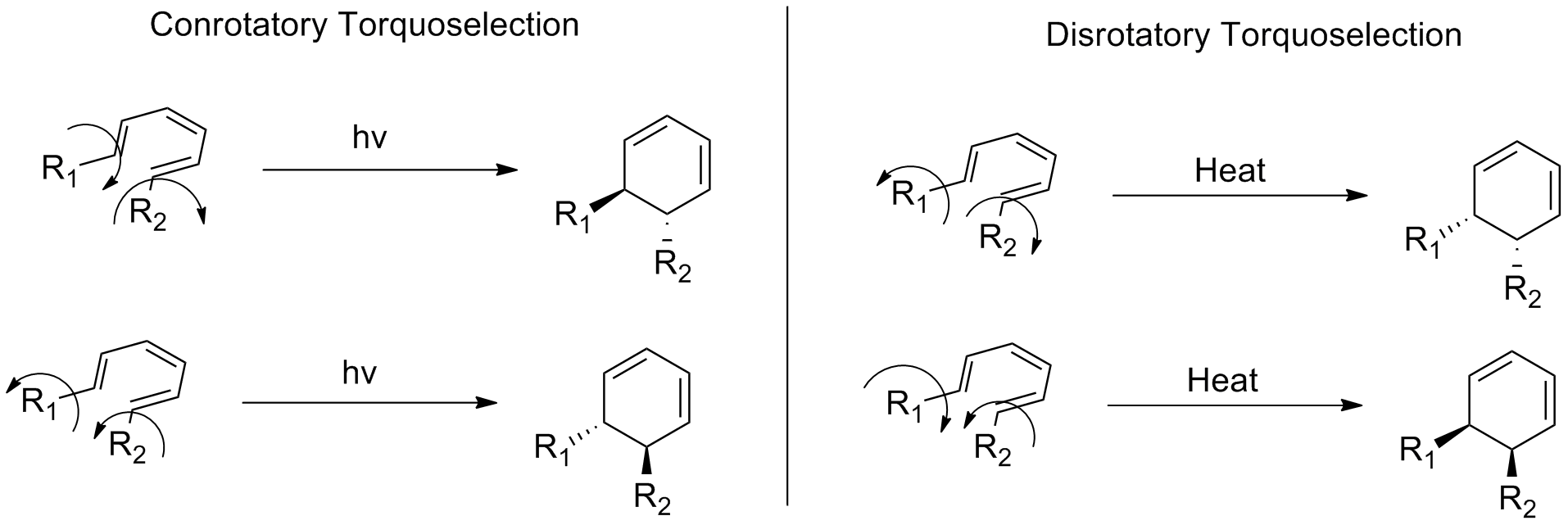 Torquoselectivity